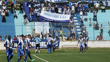 Celebration